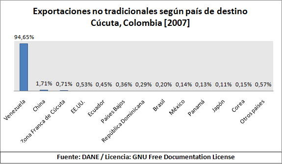 Exporations in Cúcuta, Colombia [2007]